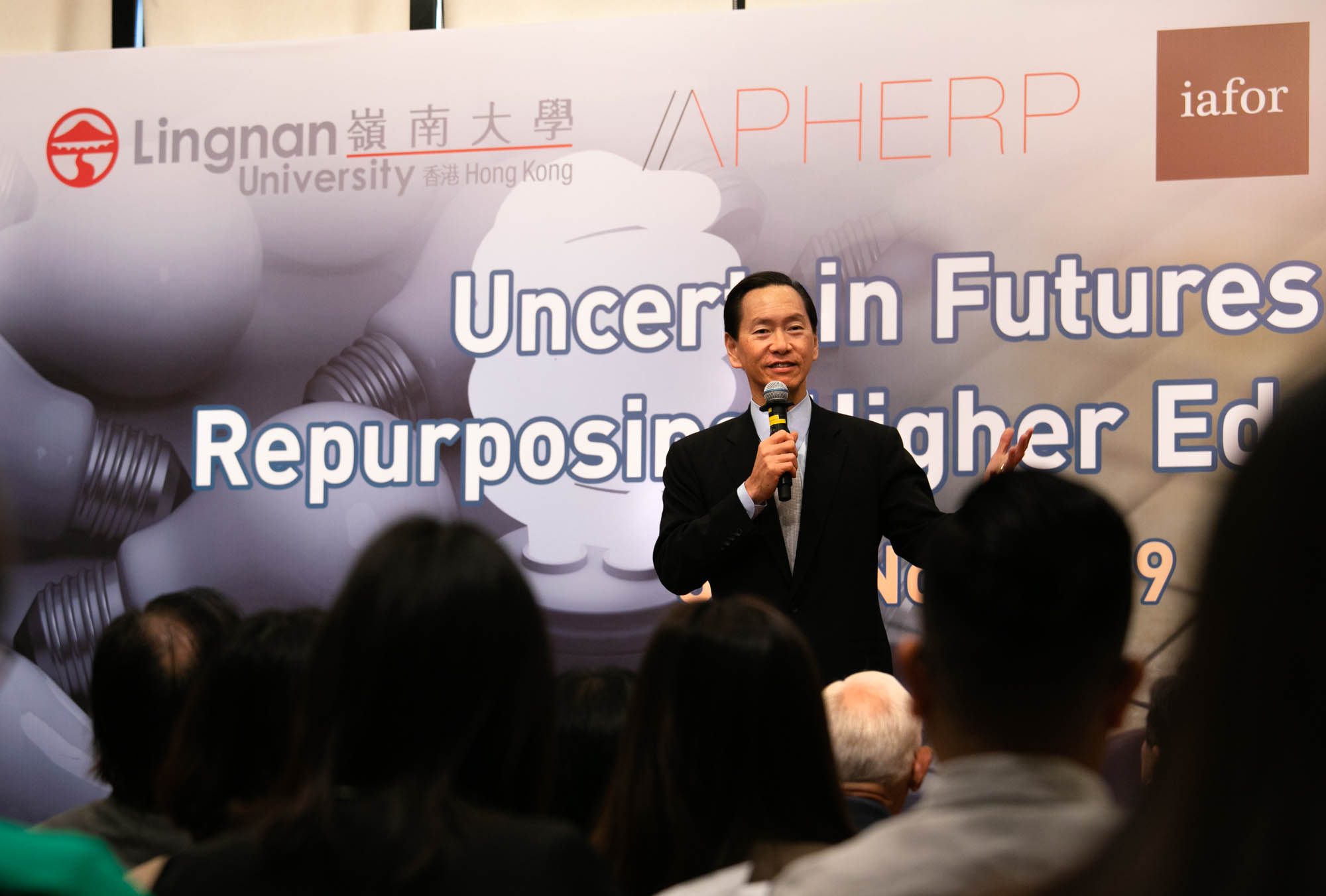 The IAFOR Conference for Higher Education Research (CHER) is held in partnership with Lingnan University, APHERP and CGHE.